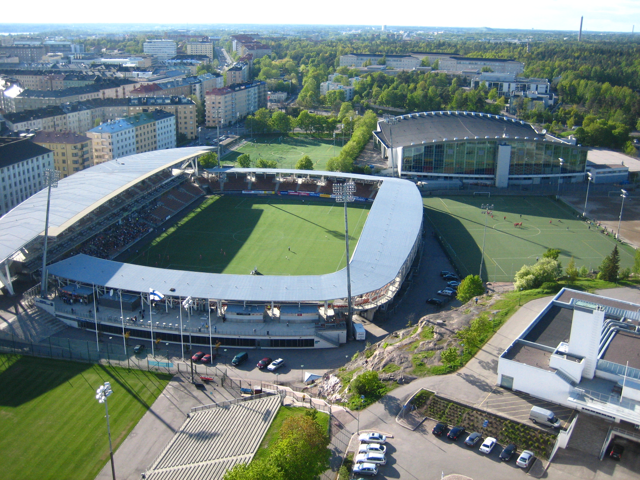 Sonera Stadium and Helsinki Ice Hall